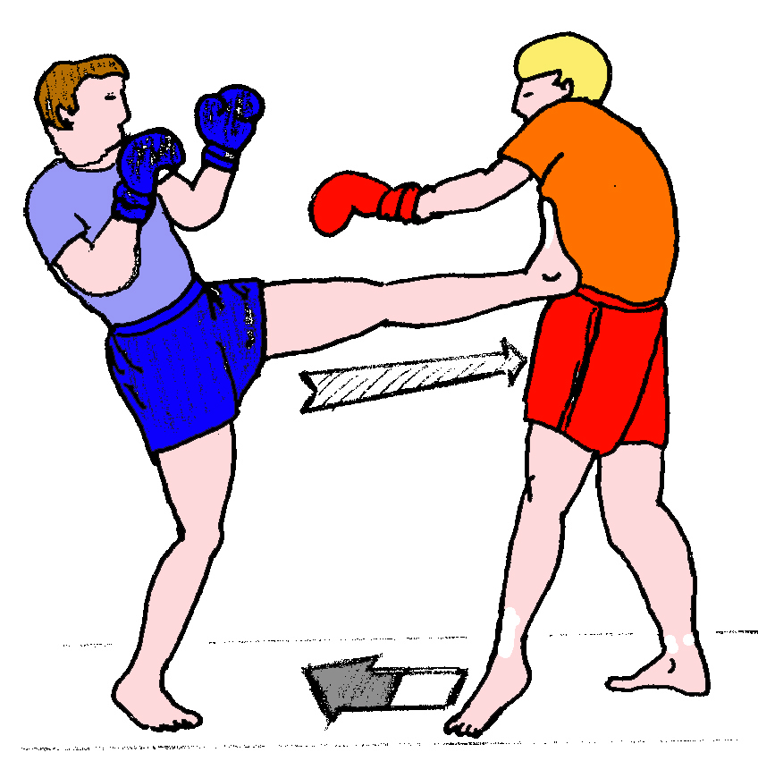 Stoppage